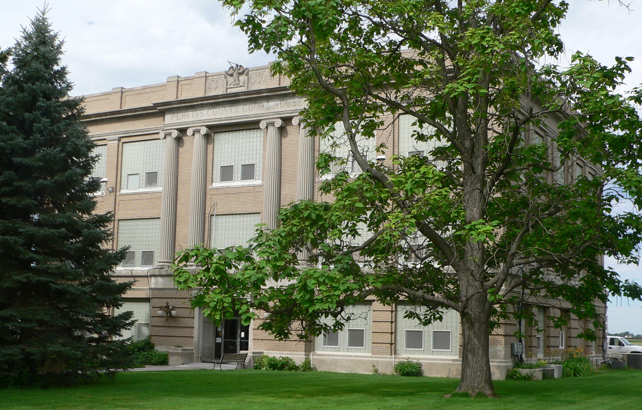 Perkins County Courthouse in Grant, Nebraska; seen from the northeast. The Classical Revival building was constructed in 1926. It is listed in the National Register of Historic Places.